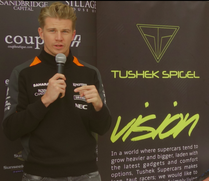 Niko Hulkenberg during Tushek Spigel press release during Formula 1